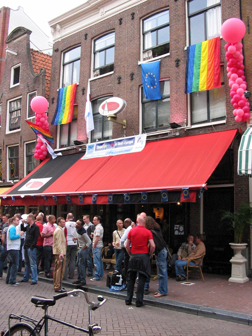 The famous gay cafe April in Reguliersdwarsstraat in Amsterdam, during Gay Pride 2007.